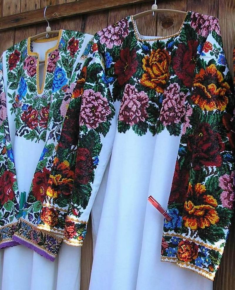 Hutsul wedding dress. Bead Embroidery. Kosiv Market. 2005. Ukraine.